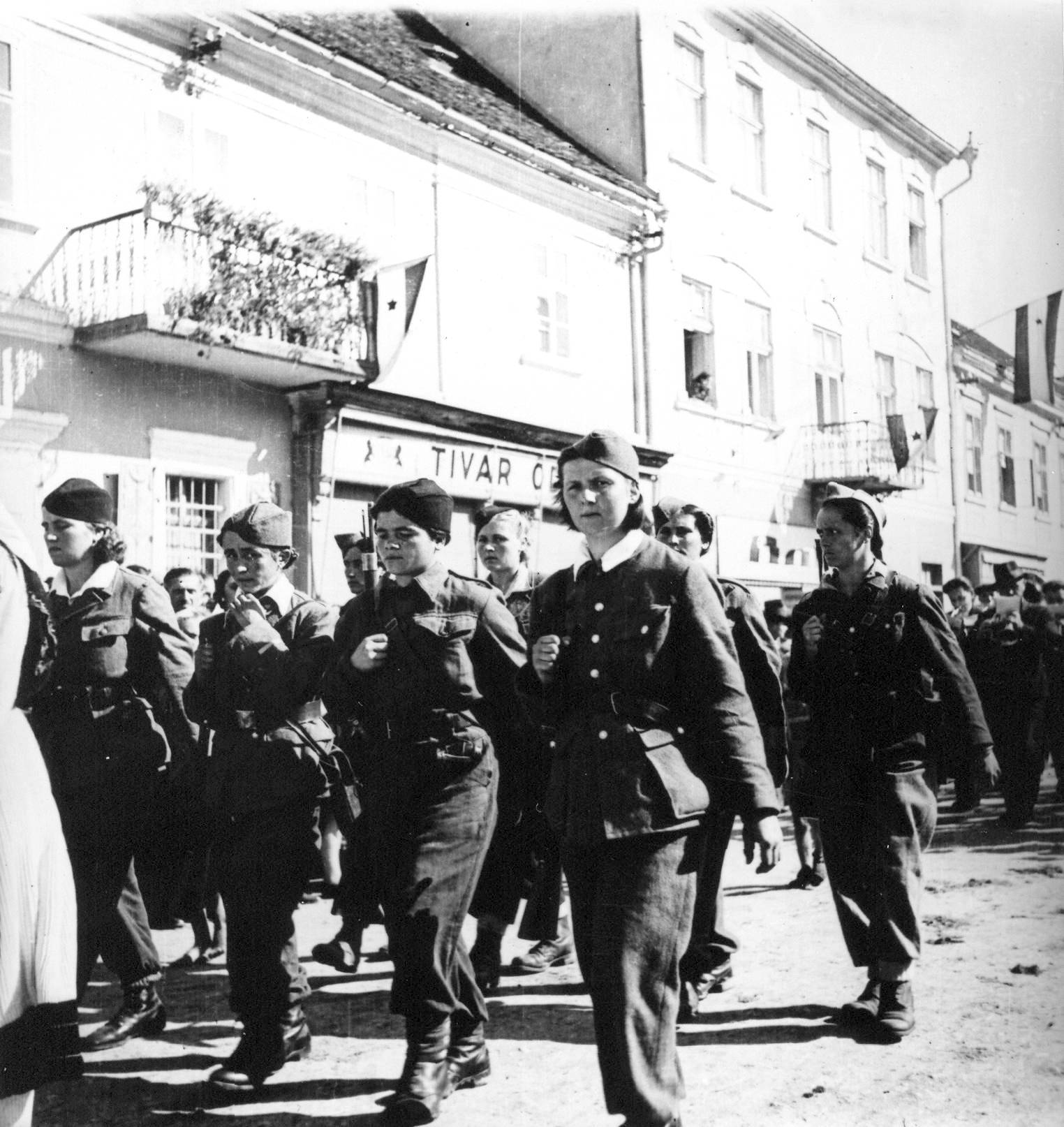 Women-partisan fighters at public rally in Požega, Croatia, 17 September 1944.